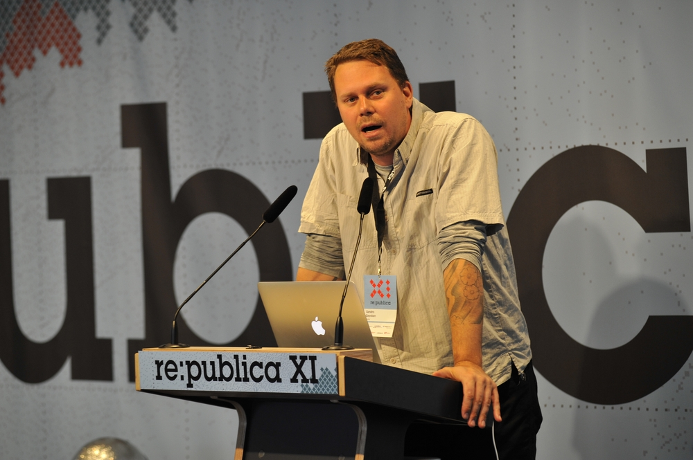 Sandro Gaycken * (cc) dirk haeger / re:publica 2011